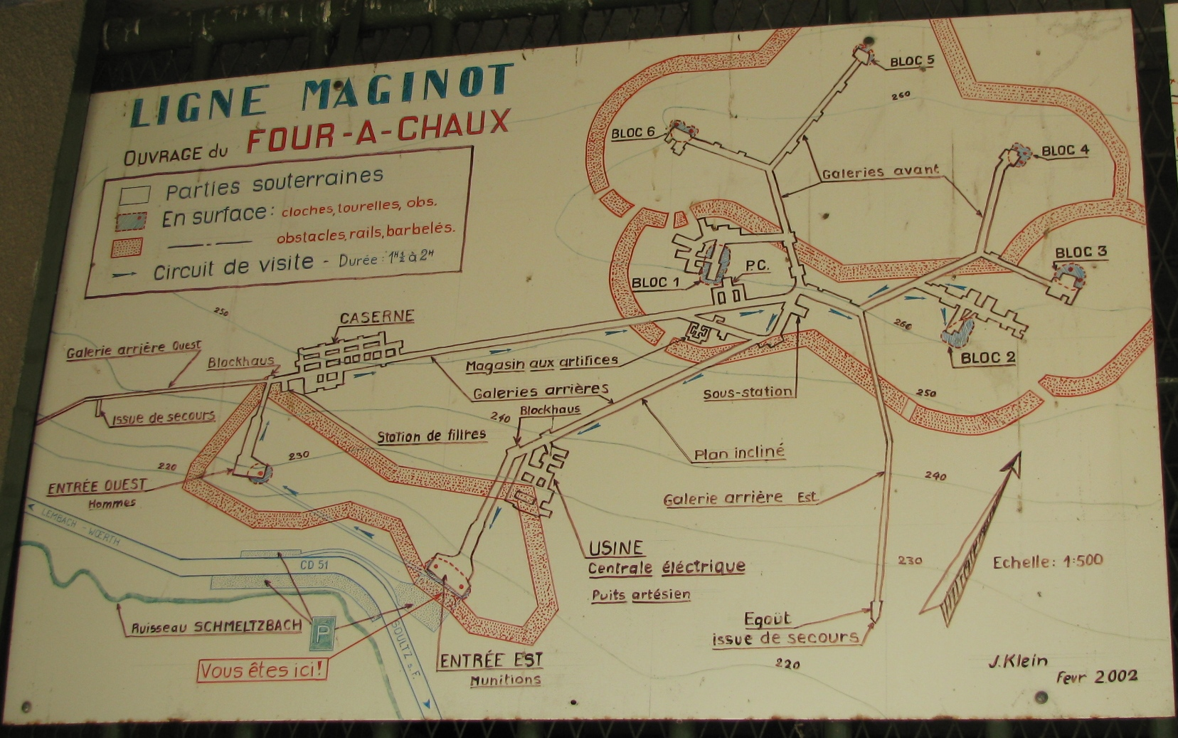 Plan of the ouvrage Four à Chaux.